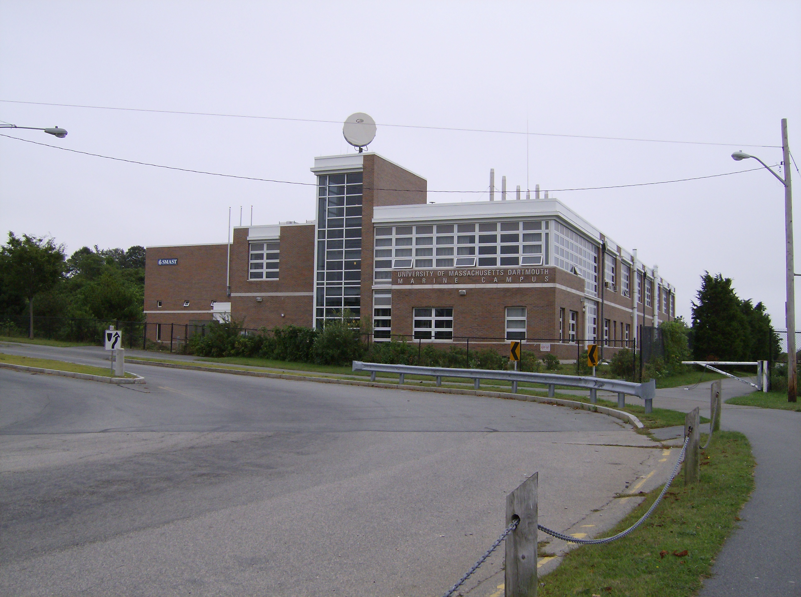 The exterior of the University of Massachusetts Dartmouth Marine Campus.